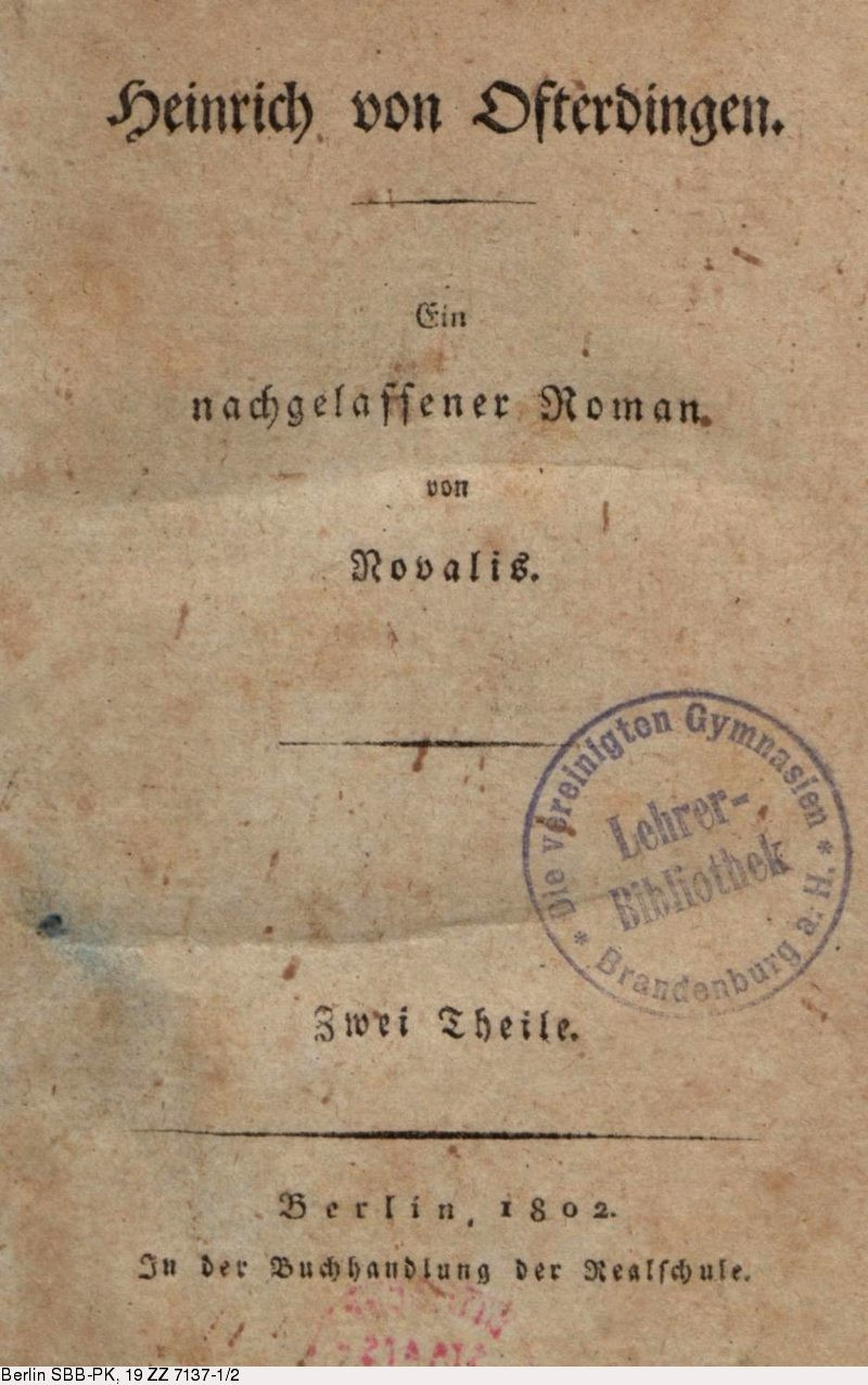 Cover of Heinrich von Ofterdingen Novalis. Berlin 1802